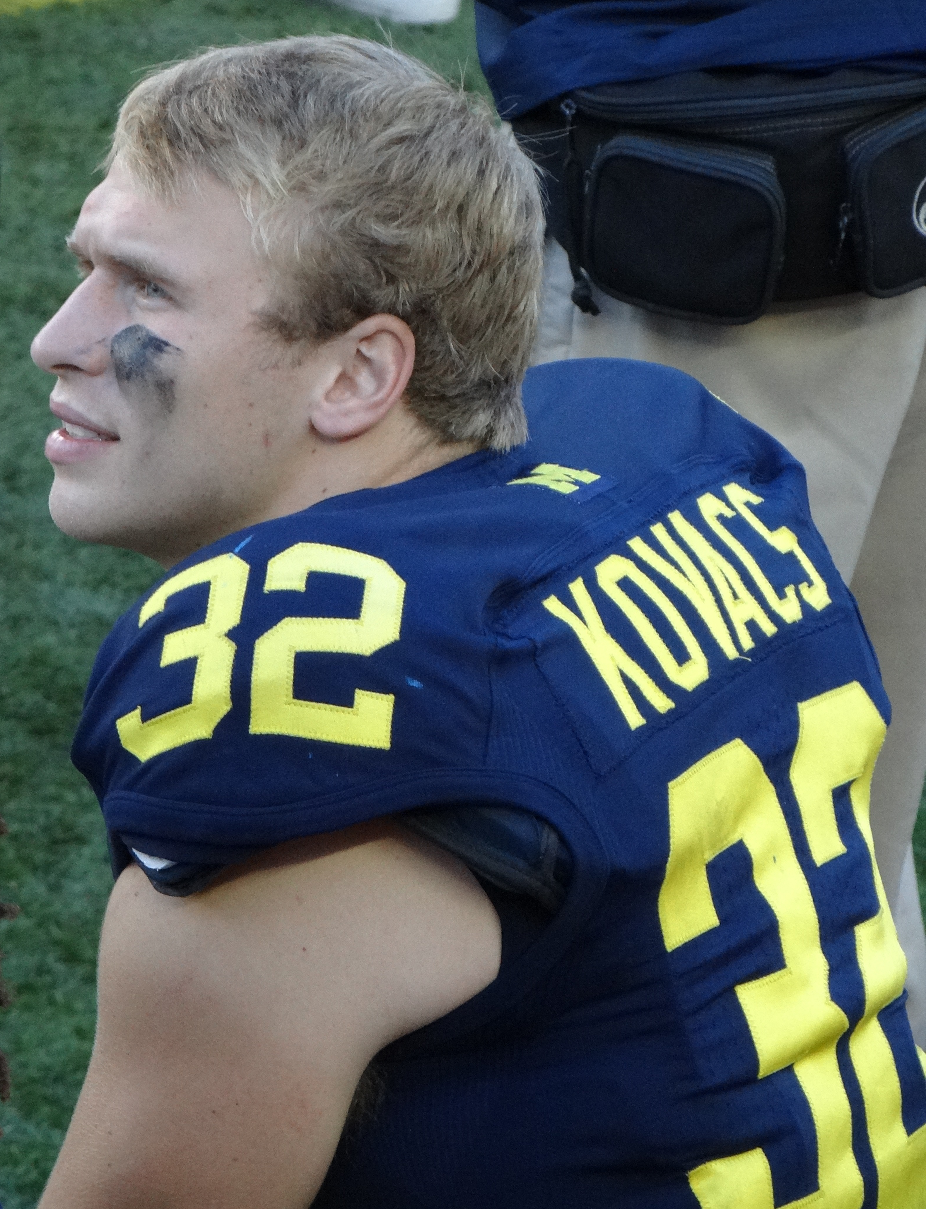 Michigan captain Jordan Kovacs